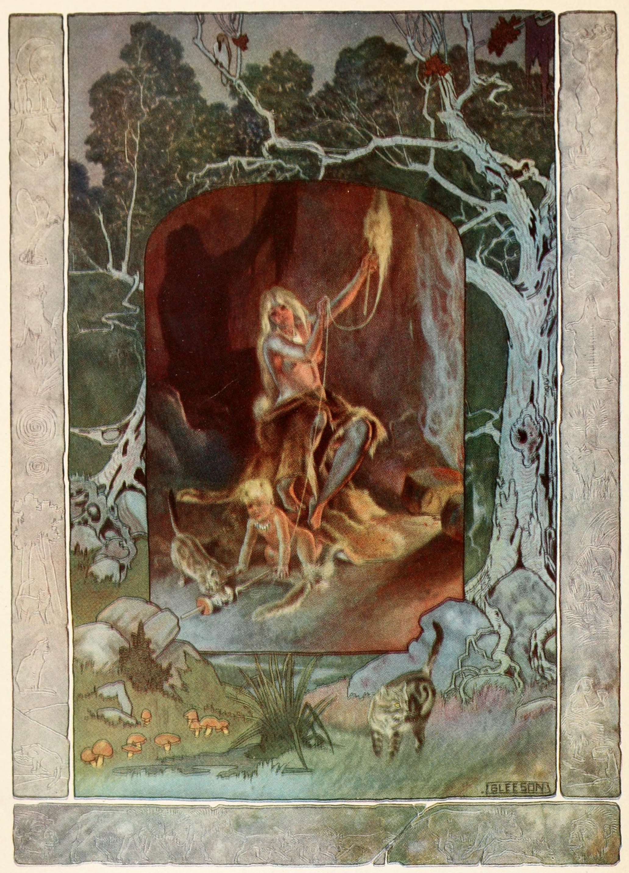 Illustration from a collection of short stories Just so stories (c1912) Garden City, N.Y. : Doubleday & Co., Inc.